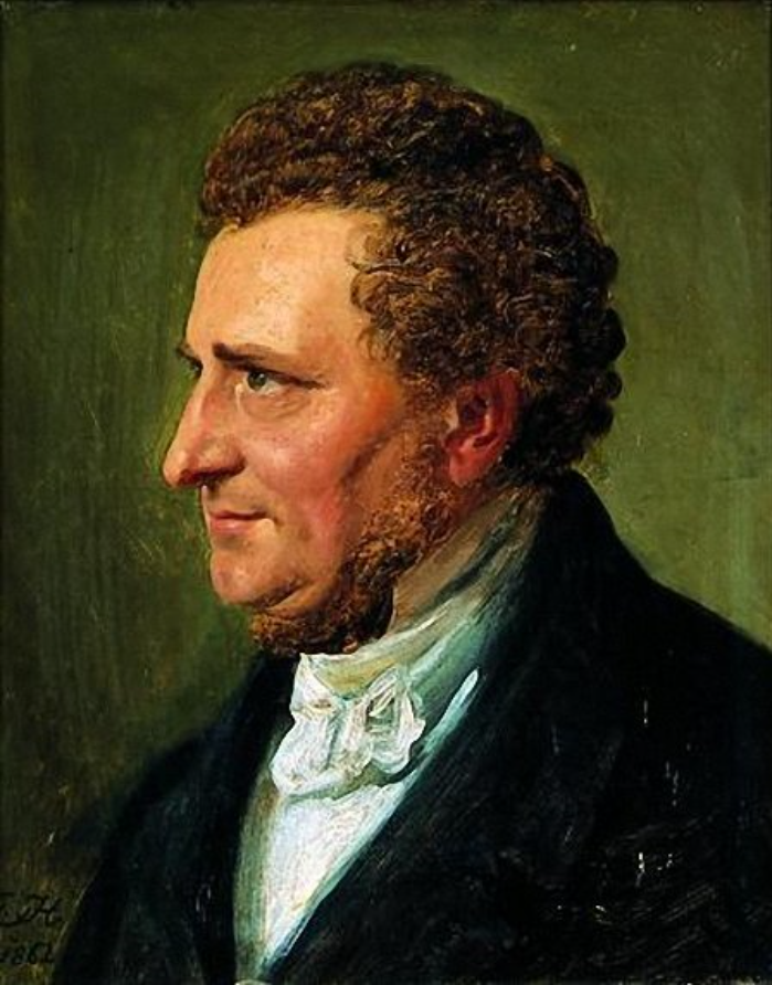 Martin Hammerich, Danish educator and landowner